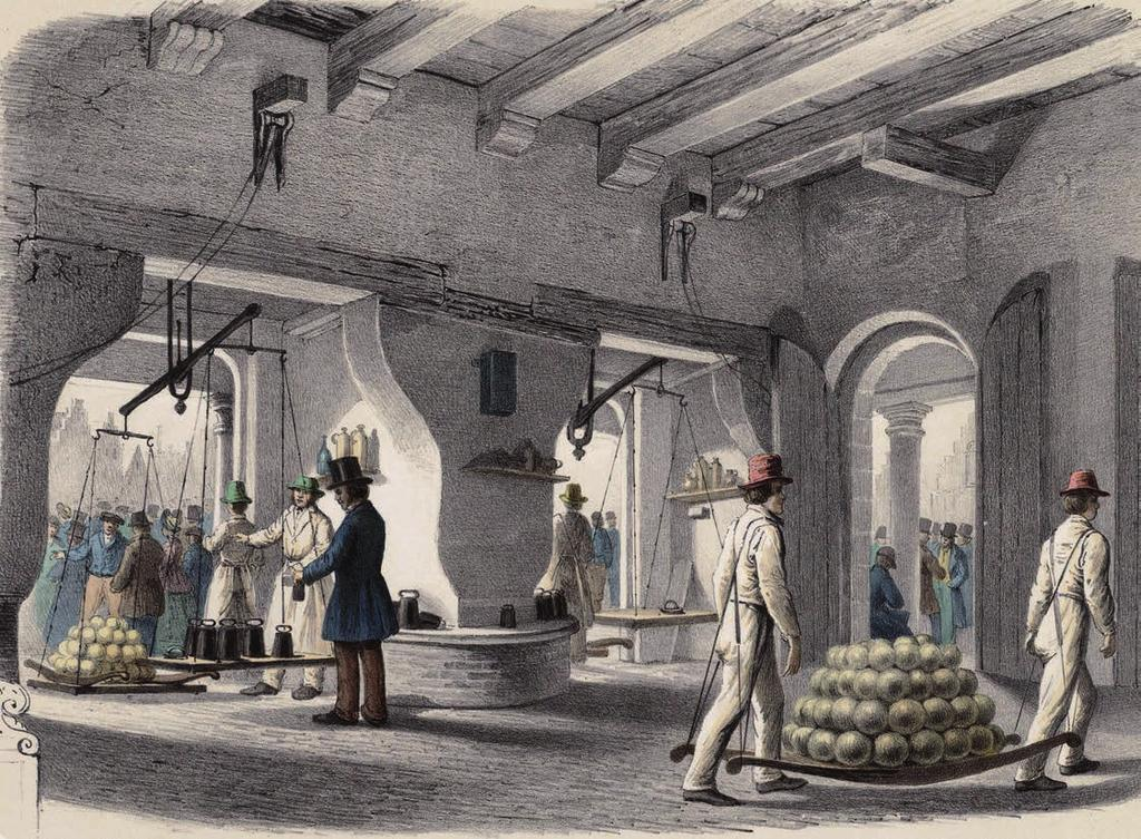 Cheese market in Alkmaar, weigh hall scene, 1870